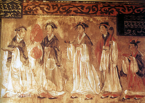 The Dahuting Tomb (Chinese: 打虎亭汉墓, Pinyin: Dahuting Han mu; Wade-Giles: Tahut'ing Han mu) of the late Eastern Han Dynasty (25-220 AD), located in Zhengzhou, Henan province, China, was excavated in 1960-1961 and contains vault-arched burial chambers decorated with murals showing scenes of daily life. For further information, see the Baidu article (in Chinese): 打虎亭汉墓. Click here for more pictures and a step-by-step walkthrough of the tomb, from the outside, down a stairwell, and through the vaulted burial chambers.